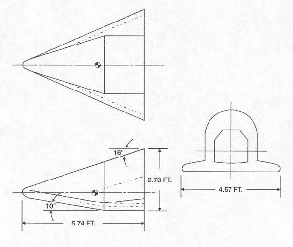 3-view line drawing showing the general configuration of the ASSET spaceplane.